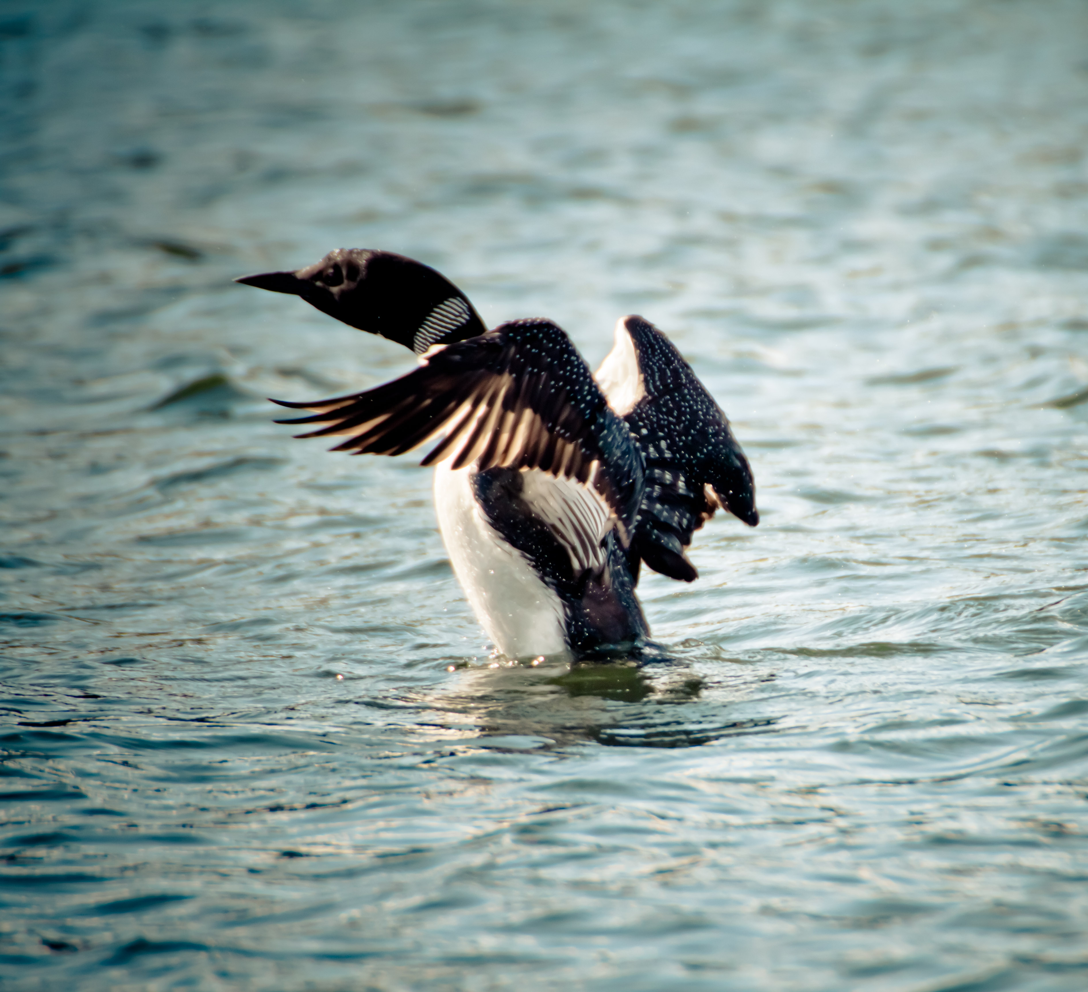 A Great Northern Loon (also known as the Great Northern Diver and the Common Loon) on Pike Lake, Lanark County, Ontario, Canada.